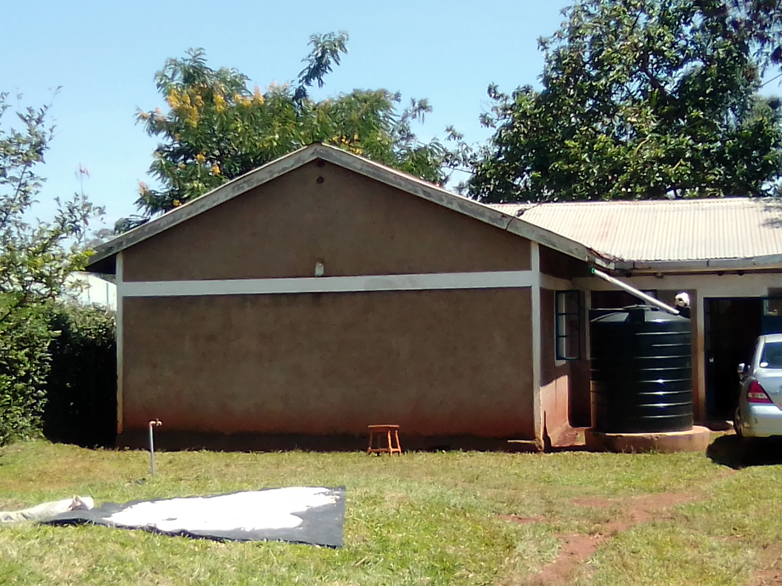 In rural areas like Siaya in Kenya,there is one typical example of houses which are resided in by people if average living standards. Most of them are under developed due to inadequate skilled personnel or constructors. Also to avoid insecurity or theft,many build such houses so as to prevent them from being robbed. This is an image with the theme "Africa on the Move or Transport" from: Kenya